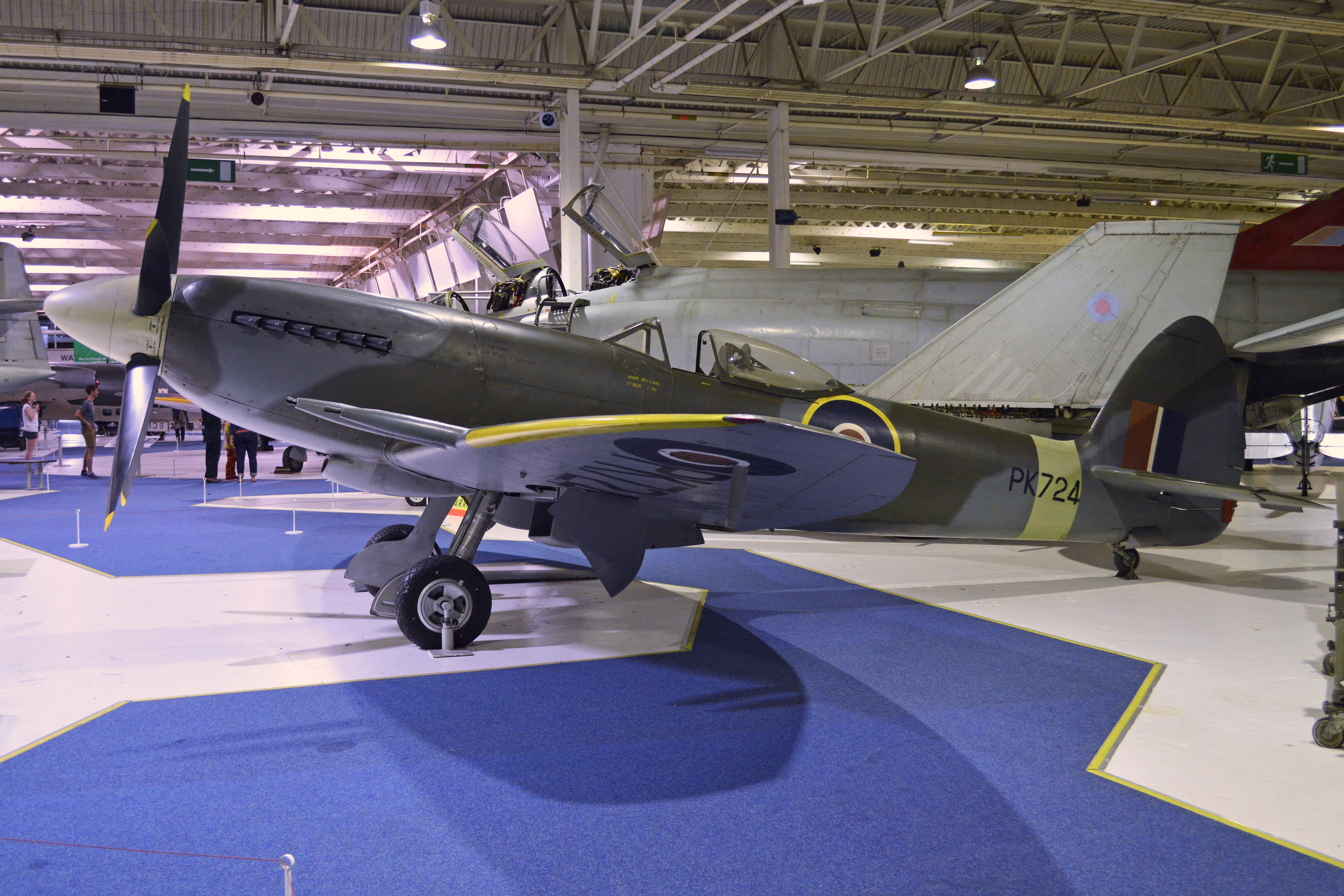 First flew in February 1946. This airframe only has seven hours flying time, and was never issued to an operational unit. Between 1961 and 1970 it was on display at RAF Gaydon, except for a short period at RAF Henlow in connection with the Battle of Britain film. In 1971 it went on permanent display in the Historic Main Hangars at the RAF Museum, Hendon, London, UK. 28th May 2016